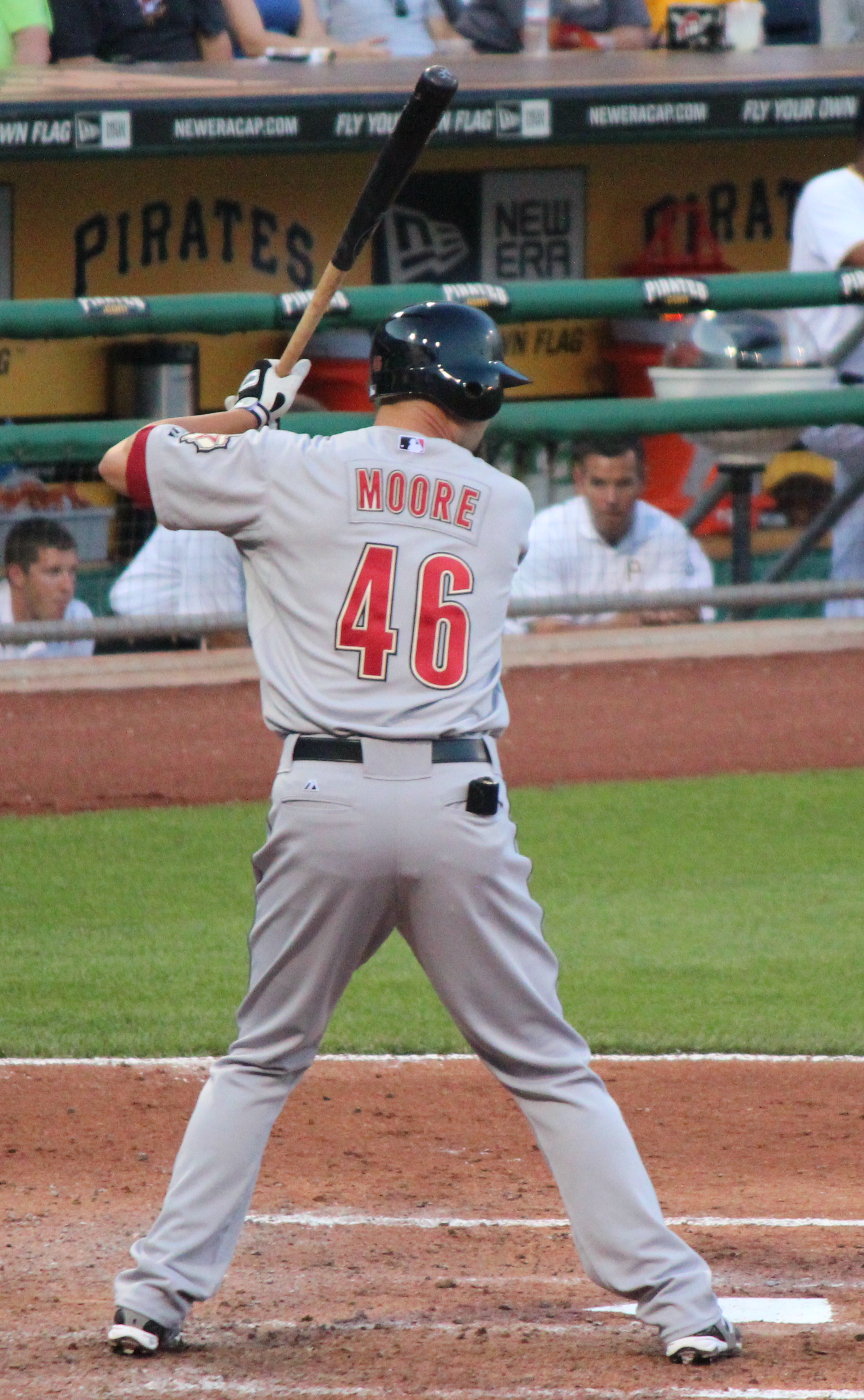 Scott Moore